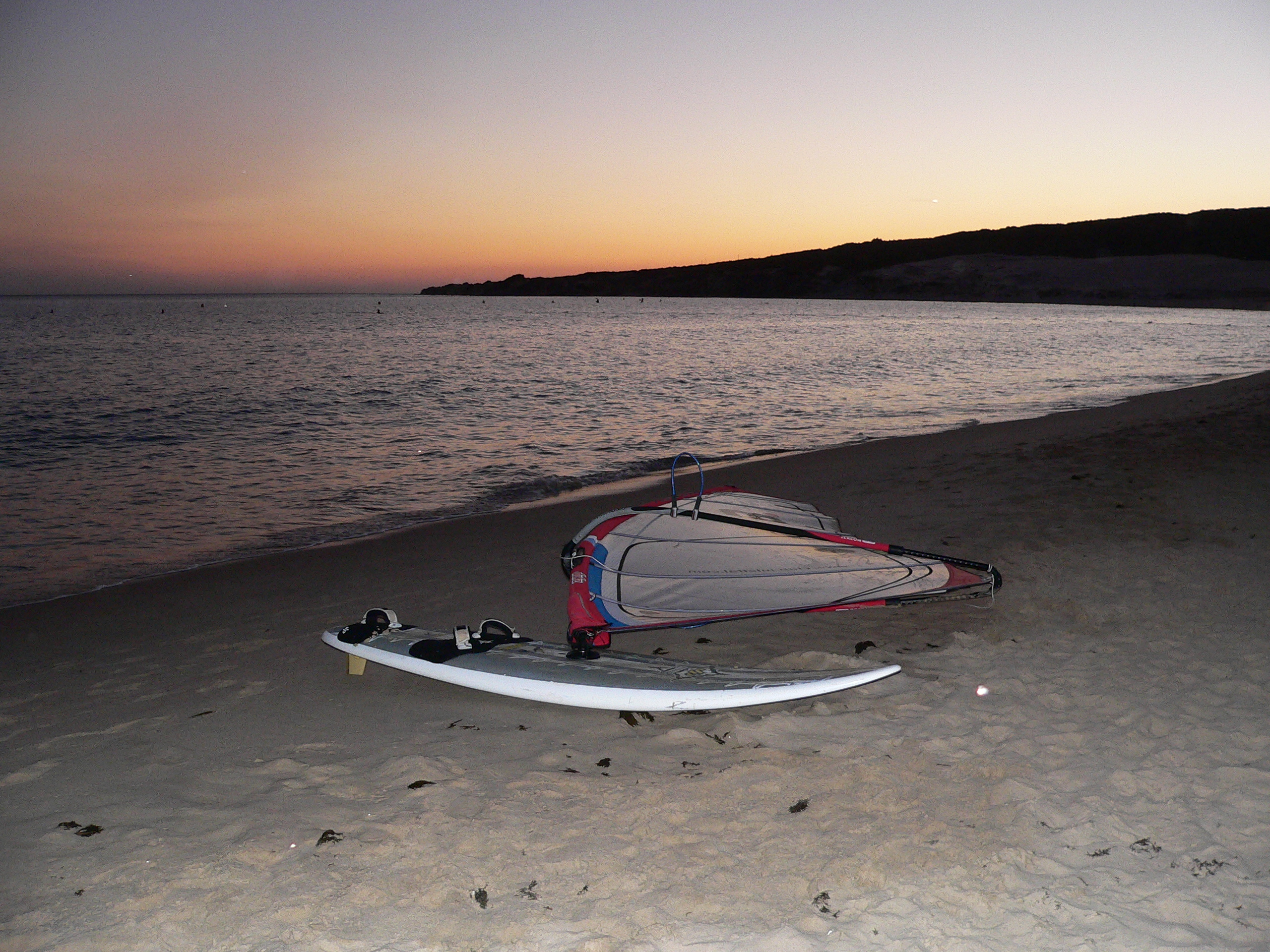 Description: Sunset and Windsurf Subject: Windsurf Beach : Punta Paloma City : Tarifa Country : Spain Photographer: © Manuel González Olaechea y Franco Shot date : August, 24th, 2005